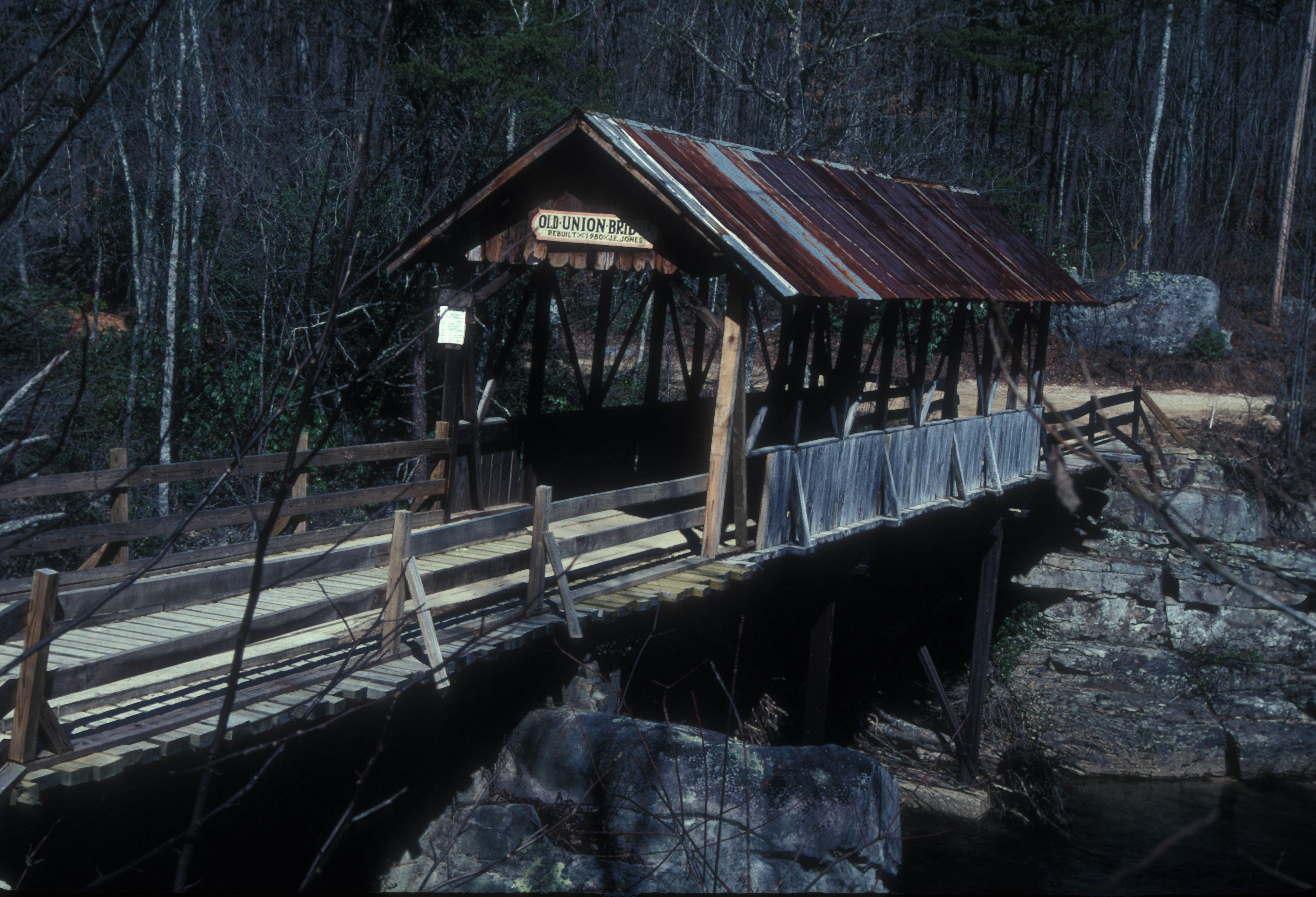 LOCATED IN DEKALB COUNTY, Alabama; 1-SPAN, 60' MODIFIED KING OVER LITTLE RIVER; BUILT IN 1864 BY THE UNION ARMY